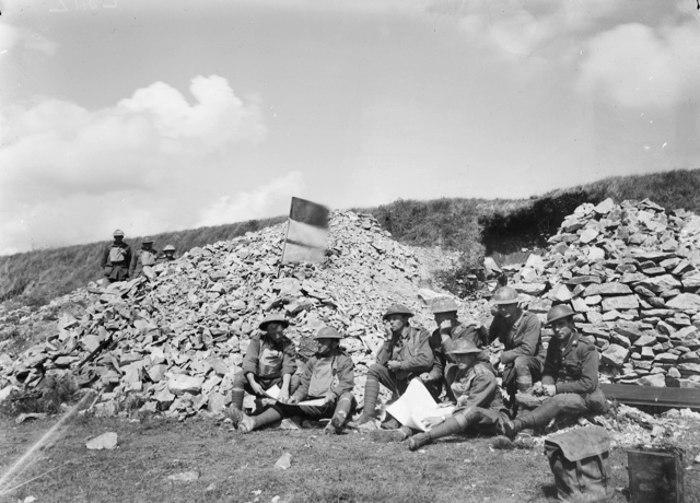 Headquarters staff from the Australian 38th Battalion, near Bray, France, 26 August 1918. Original caption (at source): "The Headquarters Staff of the 38th Battalion just beyond Bray, when the Battalion was enjoying a momentary rest, during the operations of the 3rd Australian Division on the north bank of the Somme. The hole in the bank behind the group was the Battalion Headquarters. In foreground, left to right: Lieutenant (Lt) H. F. Poole; Lt W. P. D. Murie; Major A. J. A. Maudsley (killed in action 31 August 1918); Lt G. A. Dutton (killed in action 29 August 1918); Lt T. H. Dunn, Signals Officer. Captain J. McCusker, Regimental Medical Officer; Lt P. J. Telfer MC, Quartermaster."